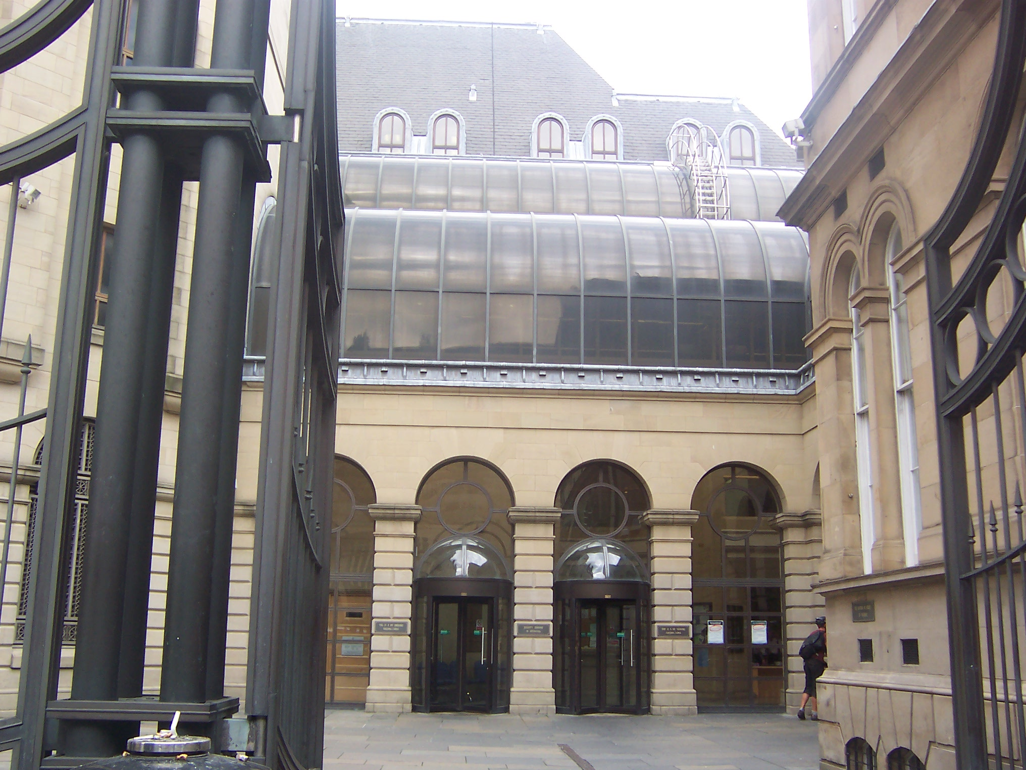 Entrance to the Sheriff Court, Edinburgh